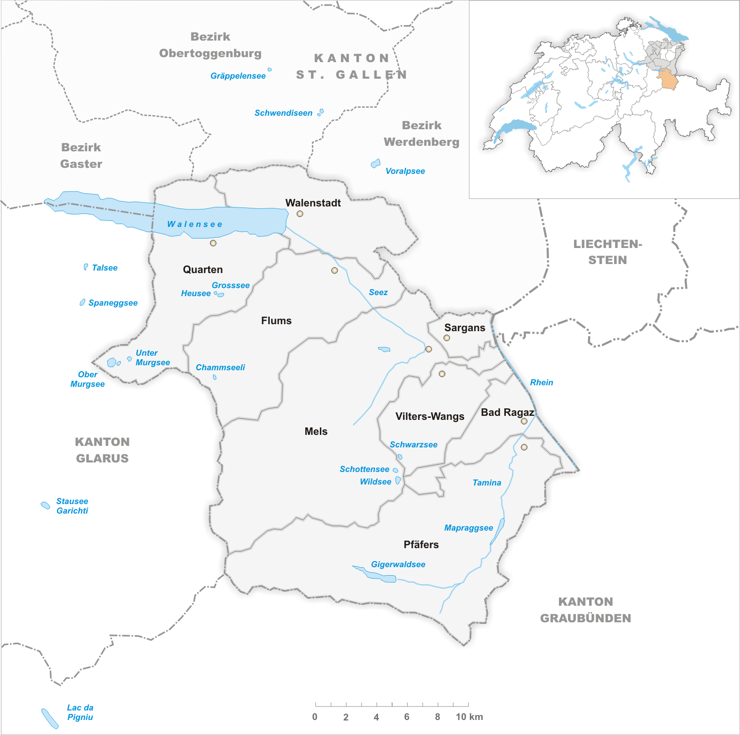 Municipalities in the district of Sargans until 2002 Map drawn by Tschubby